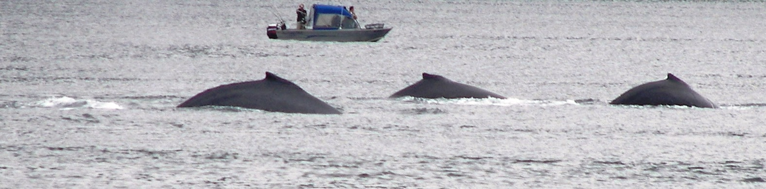 Three humpback whales diving in North Pass between Lincoln Island and Shelter Island in the Lynn Canal north of Juneau, Alaska. These whales were part of a group of 15 that were bubble net fishing on 18 August 2007.